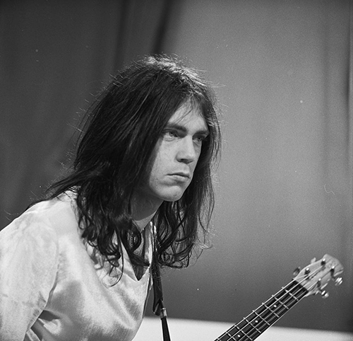 Rinus Gerritsen (Golden Earring) performing in TopPop Special (Dutch TV). Recorded 16 April 1971. Broadcast 21 May & 8 June 1971.